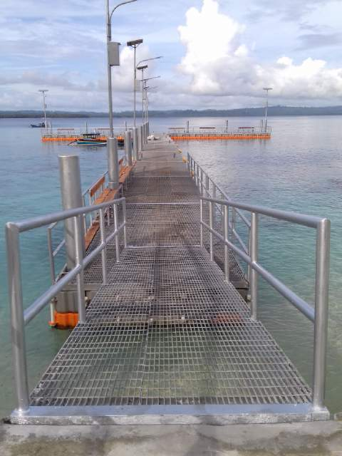 Floating Dock in Simeulue Cut Island